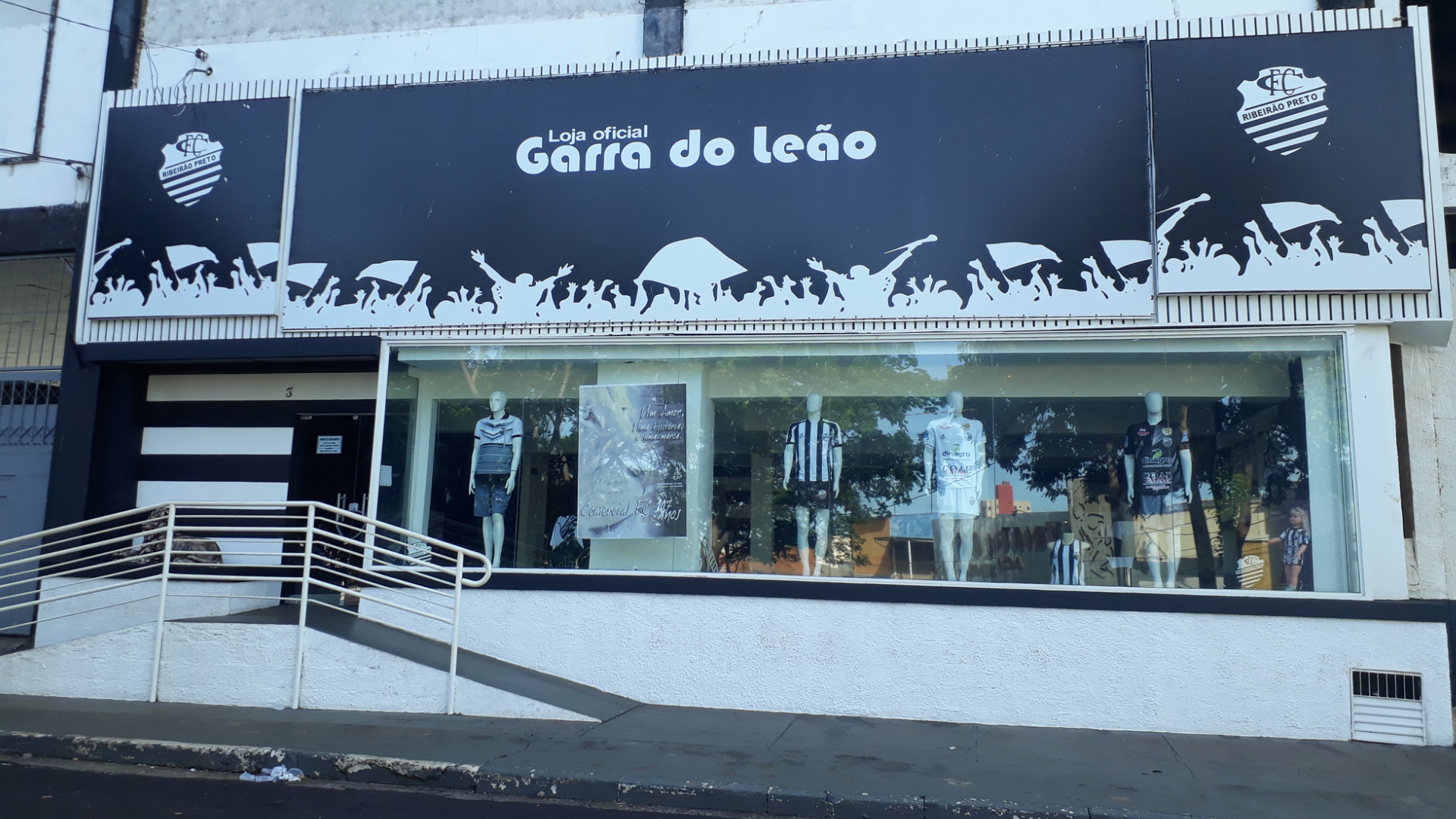 Official Garra do Leão store, locates at the Dr. Fco Stadium of Palma Travassos owned by Comercial Futebol Clube de Ribeirão Preto.